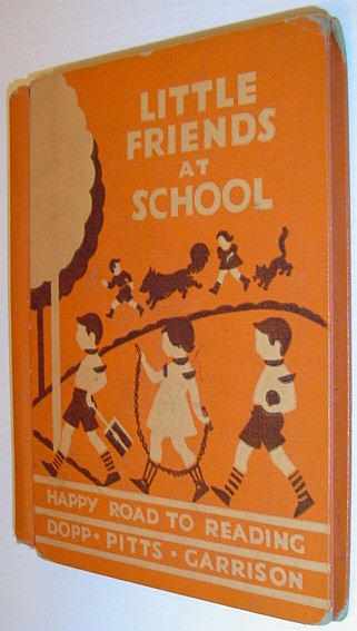 Book cover of "Little friends at school" by Katharine Elizabeth Dopp, published 1907 in Chicago